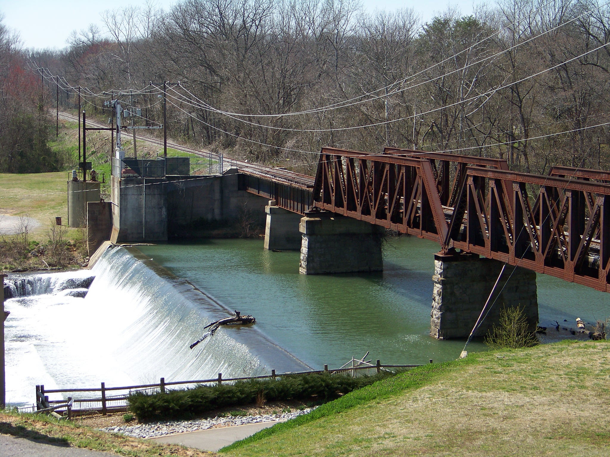 Railroad bridge going over wier that originally fed an old mill turbine